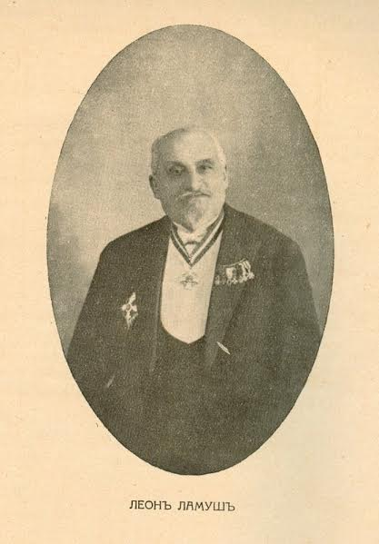 Léon Lamouche